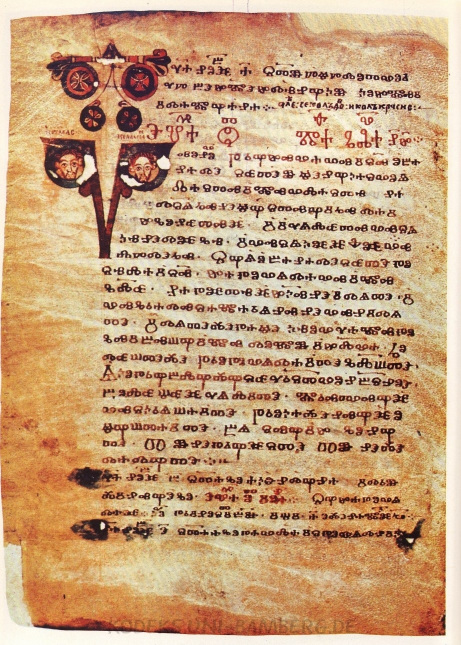 Asseman Codex, Codex Assemanianus. Codex Vaticanus Slavicus 3 Glagoliticus